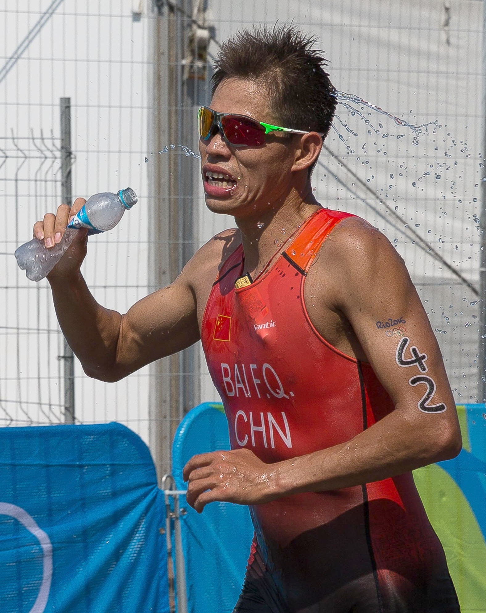 Athletes during men's triathlon competition, Copacabana ,Rio de Janeiro